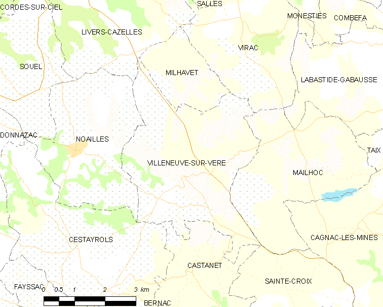 Map of French municipality Villeneuve-sur-Vère